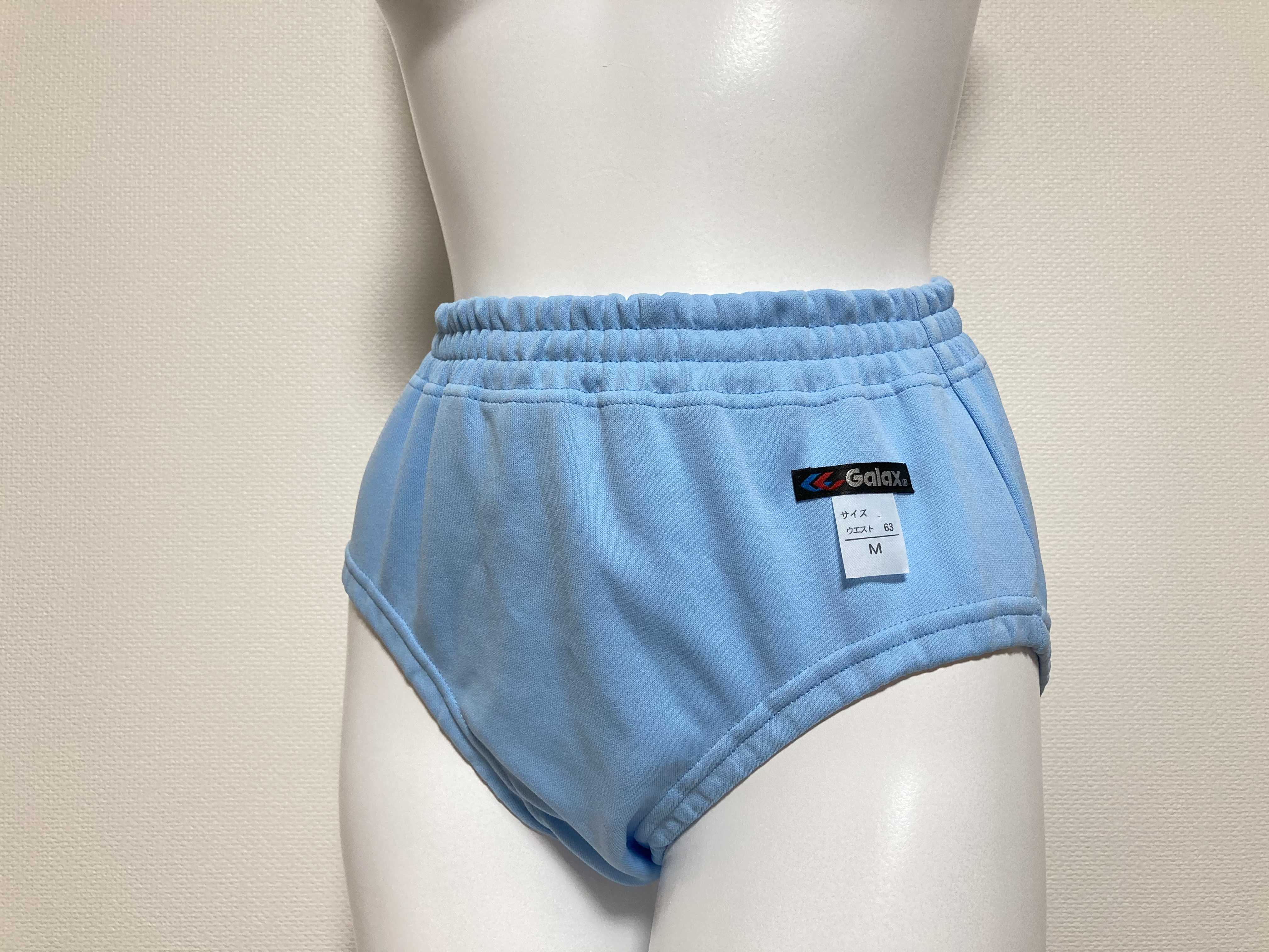 Galax Bloomer proto high leg cut